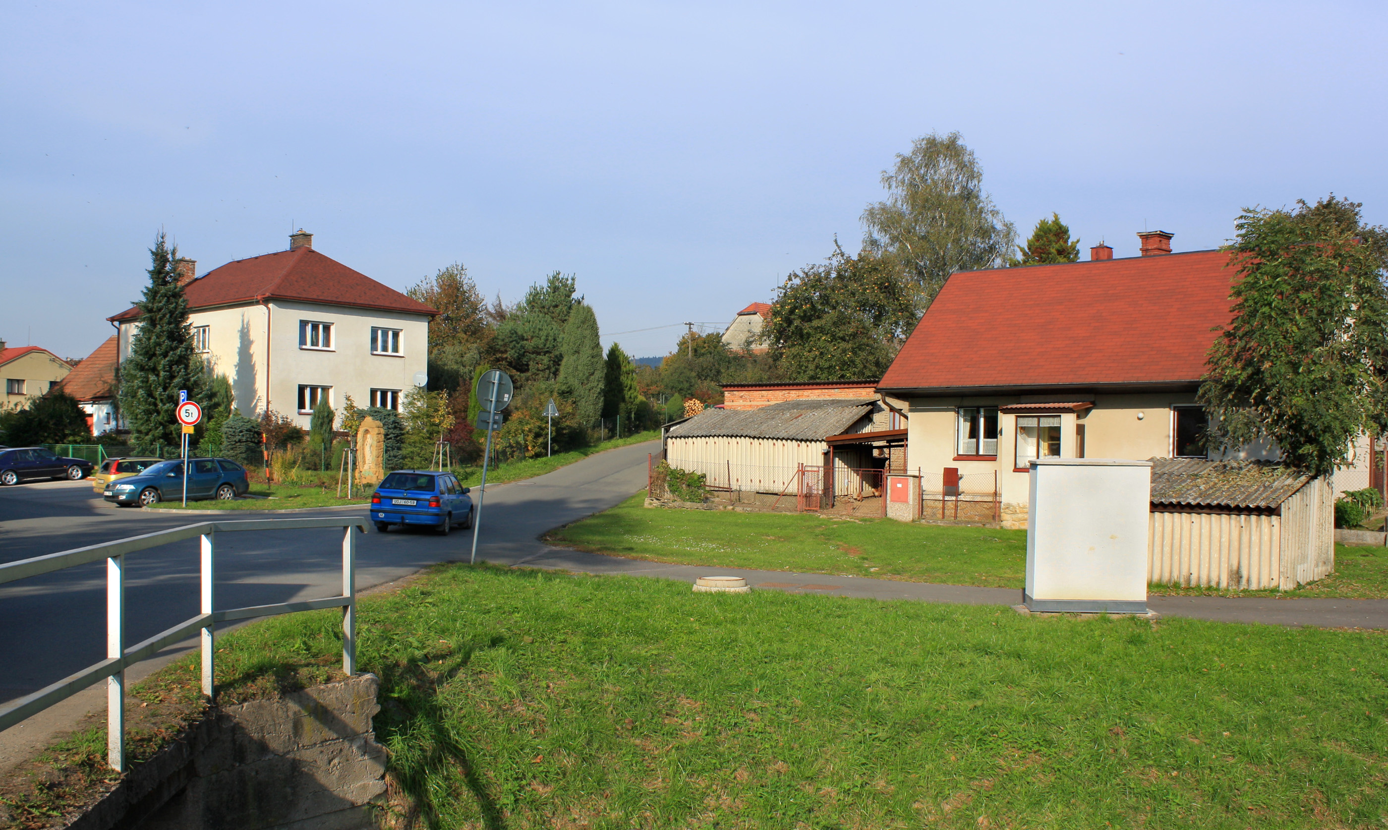 Side street in Dolní Libchavy, part of Libchavy village, Czech Republic